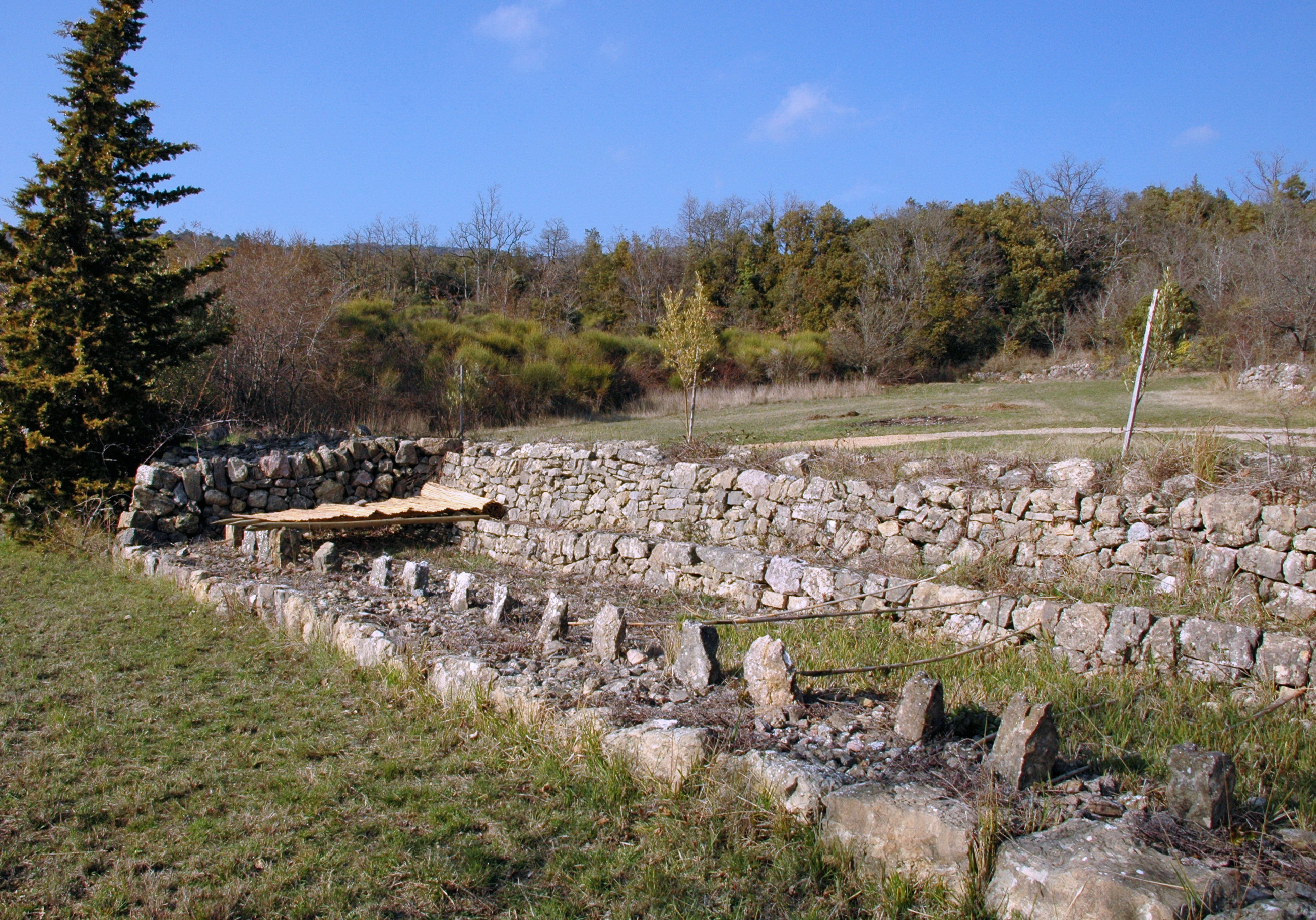 Traditionnal external fig dryer in Provence